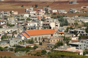 Rmeish from the mountains